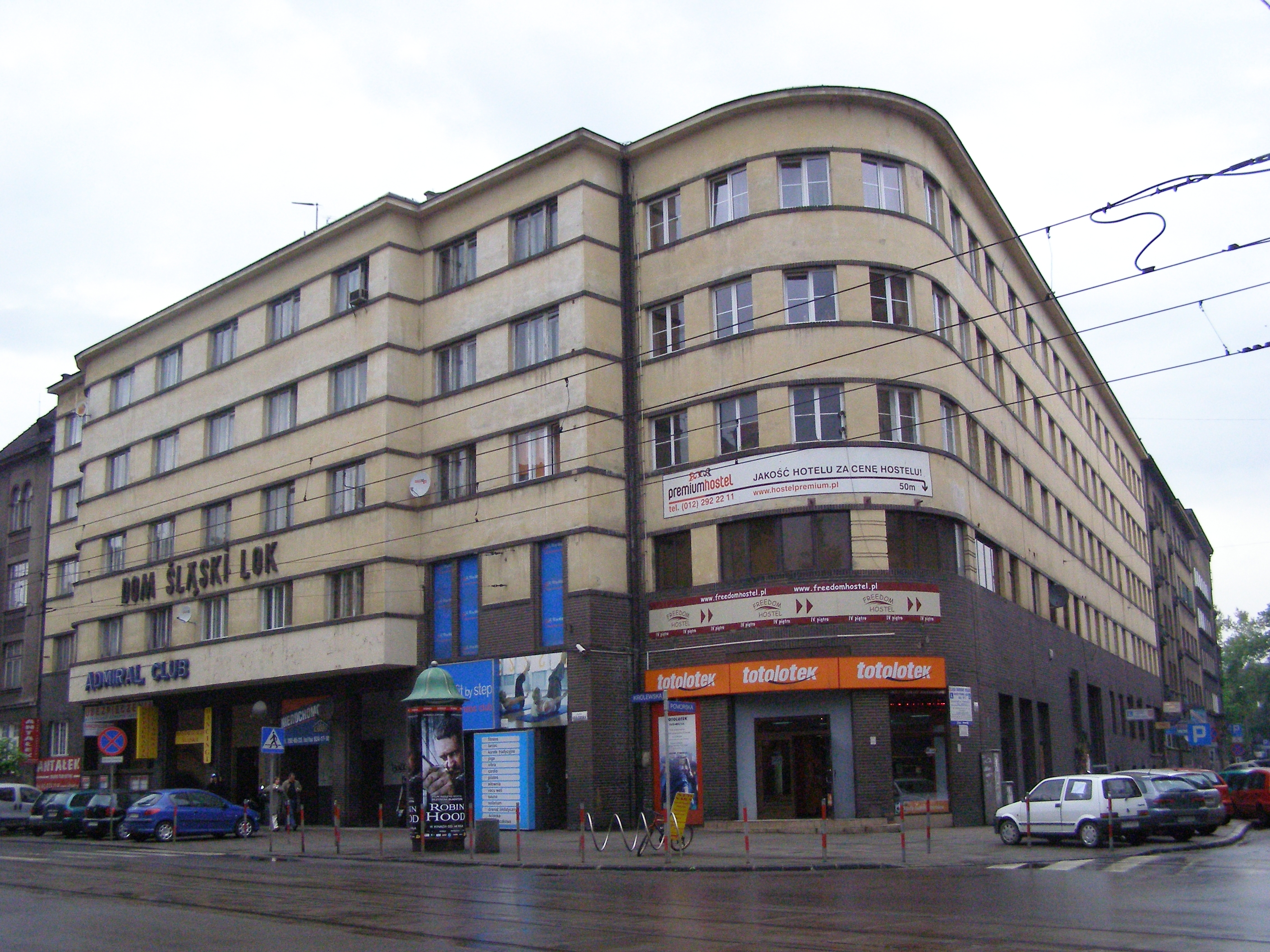 Kraków - Silesian House, a division of the Historical Museum of the City of Kraków